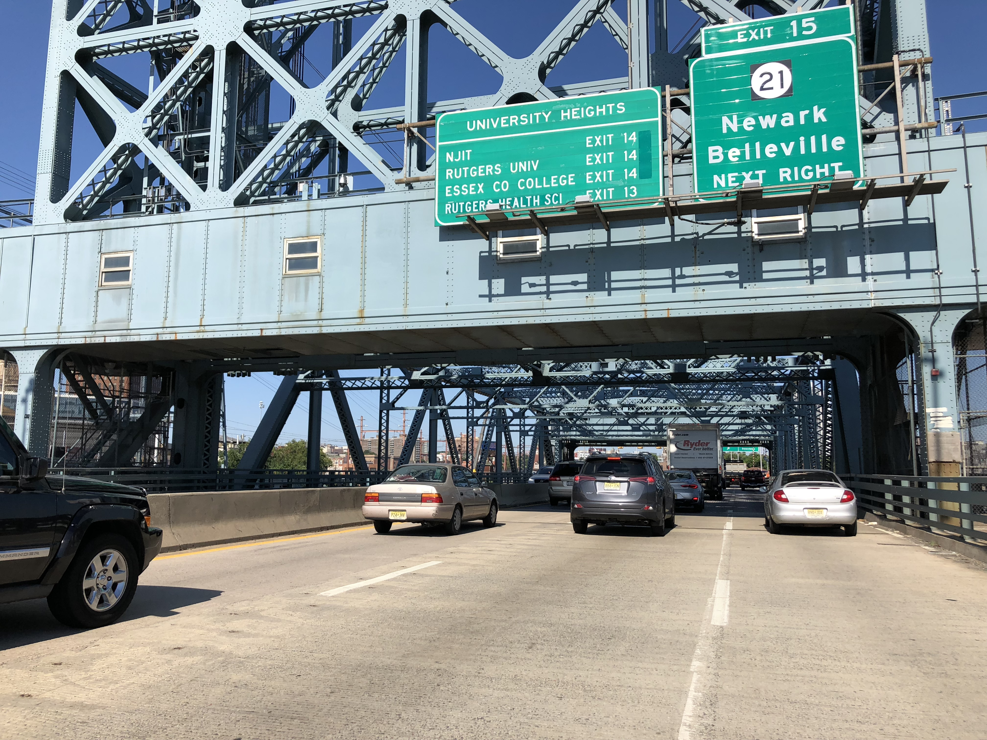 View west along Interstate 280 (Essex Freeway) just east of the William A. Stickel Memorial Bridge in East Newark, Hudson County, New Jersey